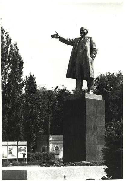 Ленин (Знаменск, Астрахань)